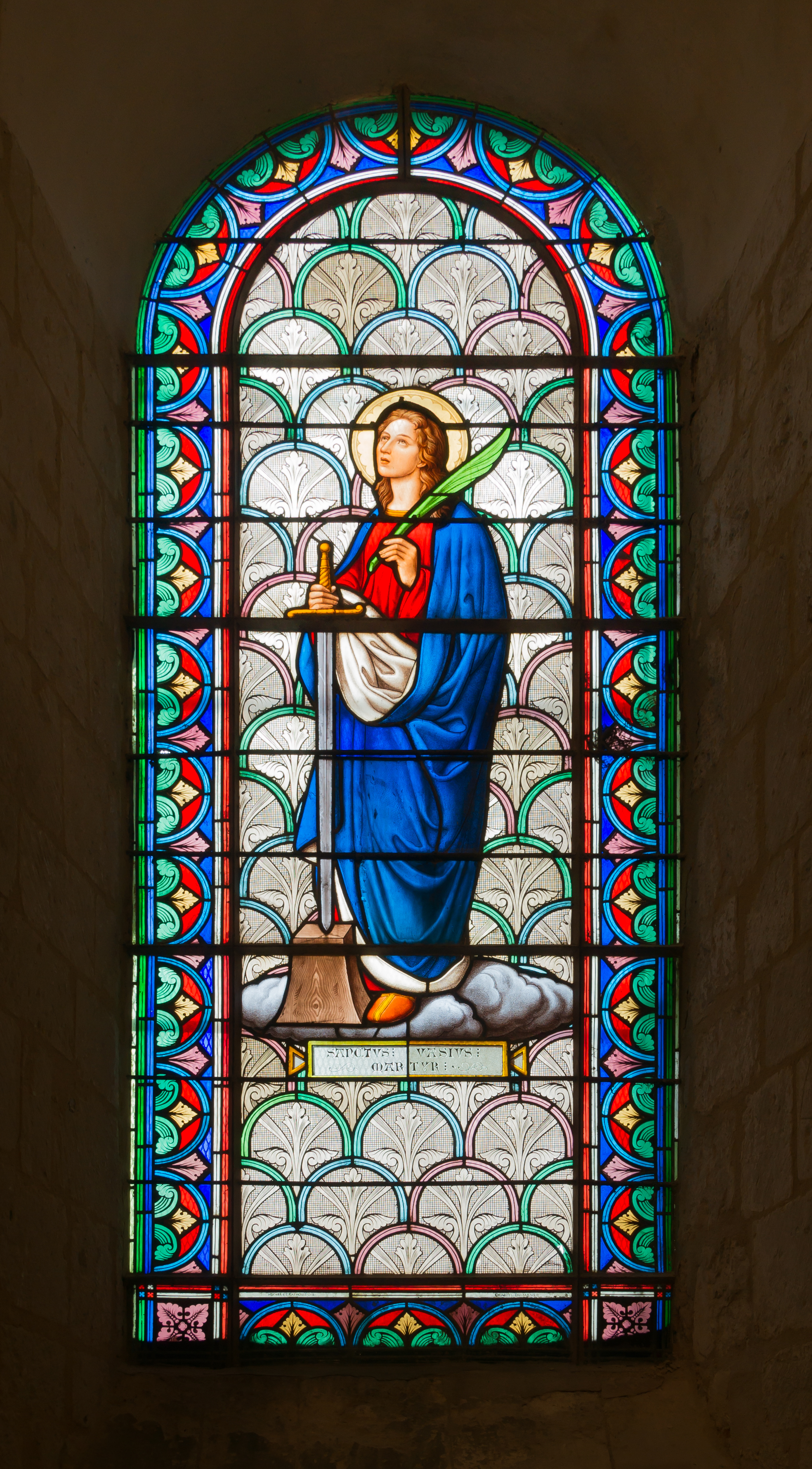 Stained glass window dedicated to Saint Vasius, martyr (+490 in Saintes), upper basilica of Saint-Eutropius in Saintes, Charente-Maritime.